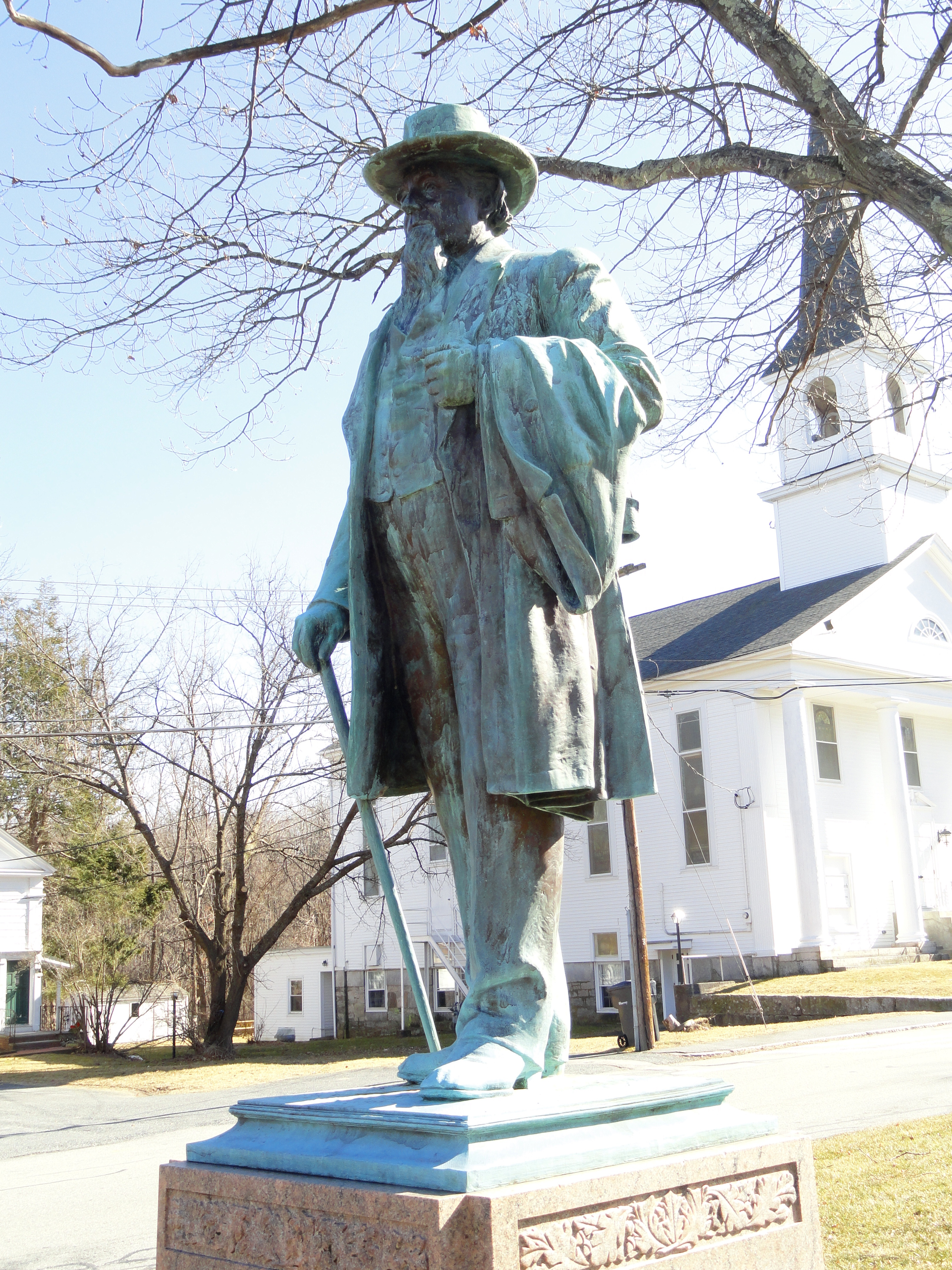 Monument to Jerome Wheelock by Herbert Adams, Grafton Common, Grafton, Massachusetts, USA. Sculptor: Herbert Adams. Date on the sculpture base: 1907. This statue is therefore in the public domain because first published in the United States before 1923.